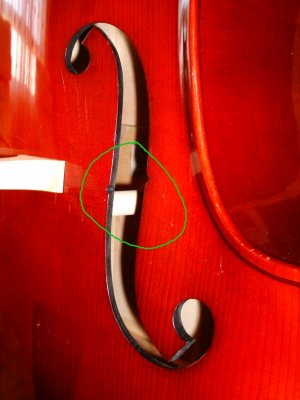 This is right "f" of my double bass. It is a Gunter (made in Rumany). It is an affordable instrument.